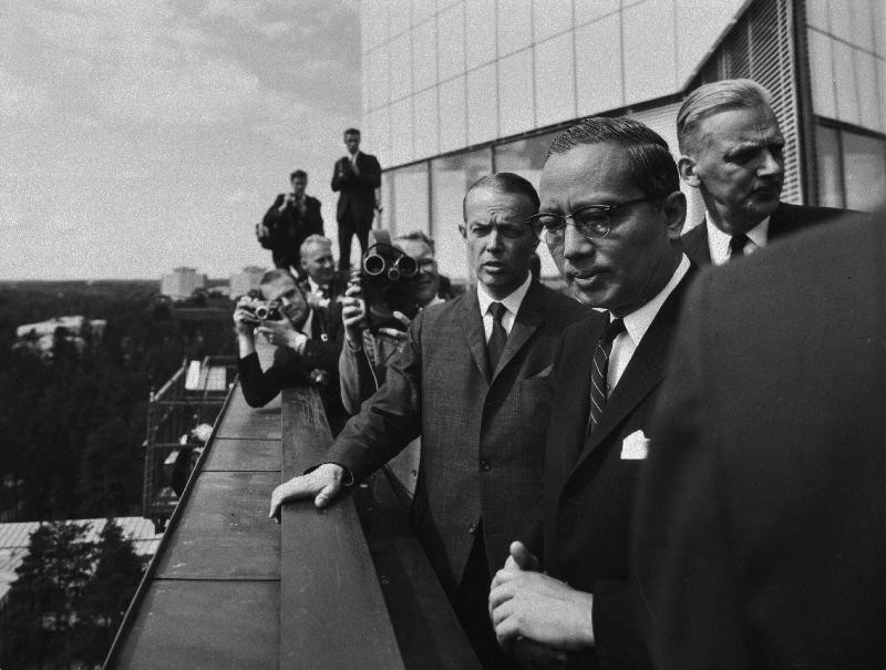 Photograph of the Secretary-General of the United Nations U Thant visiting Tapiola, Espoo, Finland. To his right, mayor Heikki von Hertzen. Behind them, the Finnish diplomat Ralph Enckell.